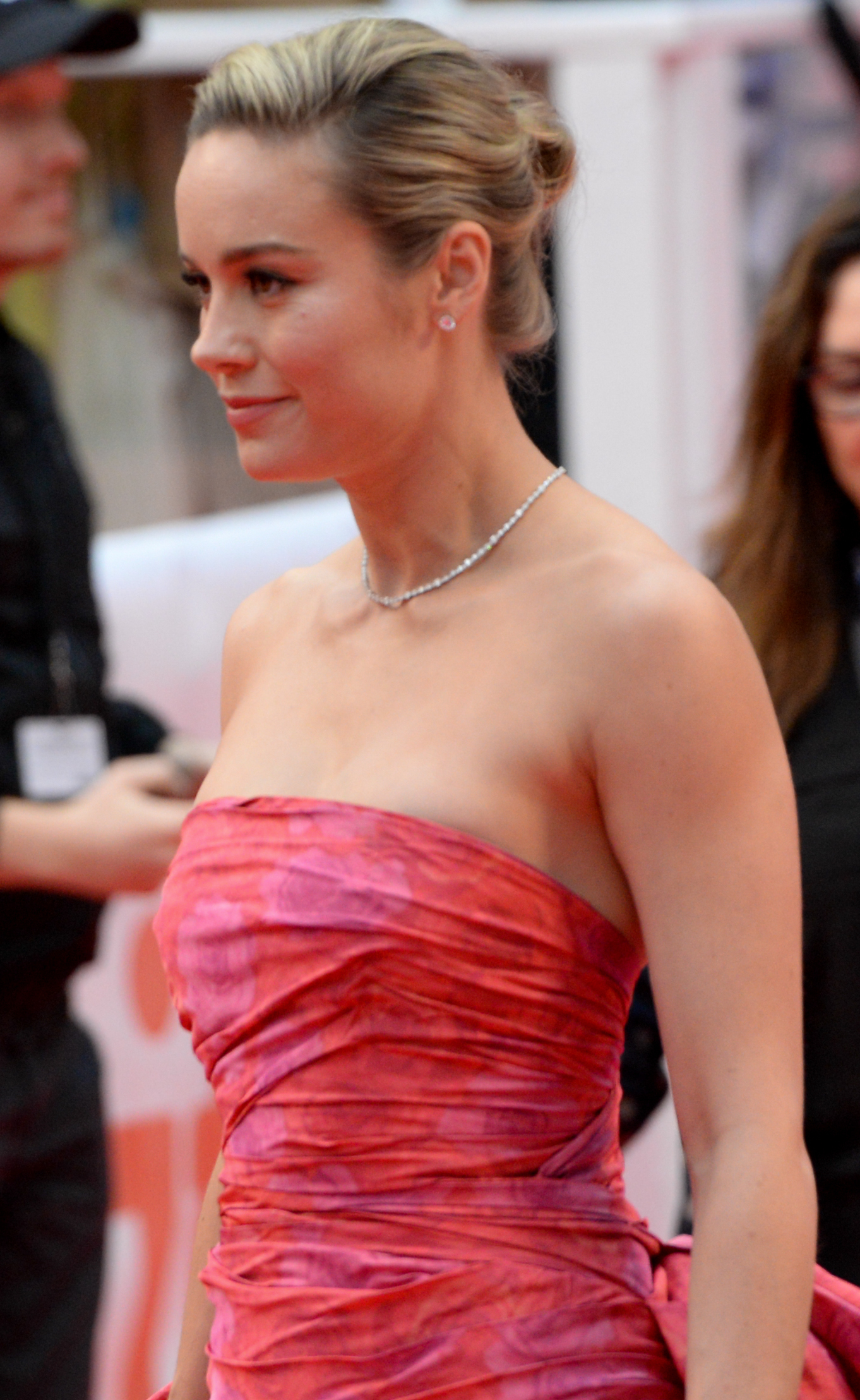 Just Mercy shadows world-renowned civil rights defense attorney Bryan Stevenson as he recounts his experiences and details the case of a condemned death row prisoner whom he fought to free.